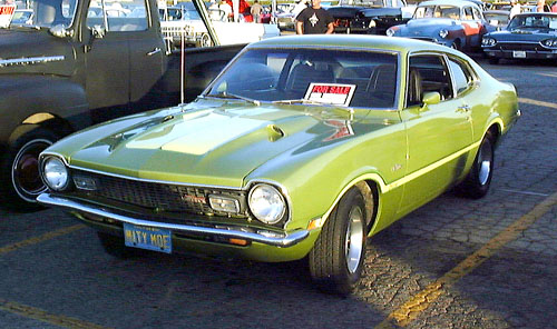 Ford Maverick Grabber - 1971 or 1972, probably. Photo by User:Morven at the monthly Pomona, California auto swap meet and show